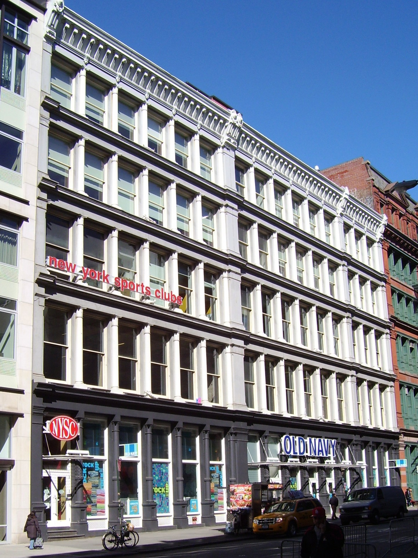 503-511 Broadway, between Broome and Spring Streets, in the SoHo neighborhood of Manhattan, New York City, were built in 1878-79 and designed by John B. Snook. These three warehouses have cast-iron facades by Cornell Iron Works, and were built for Loubat Stores. (Source: AIA Guide to NYC (4th ed.))